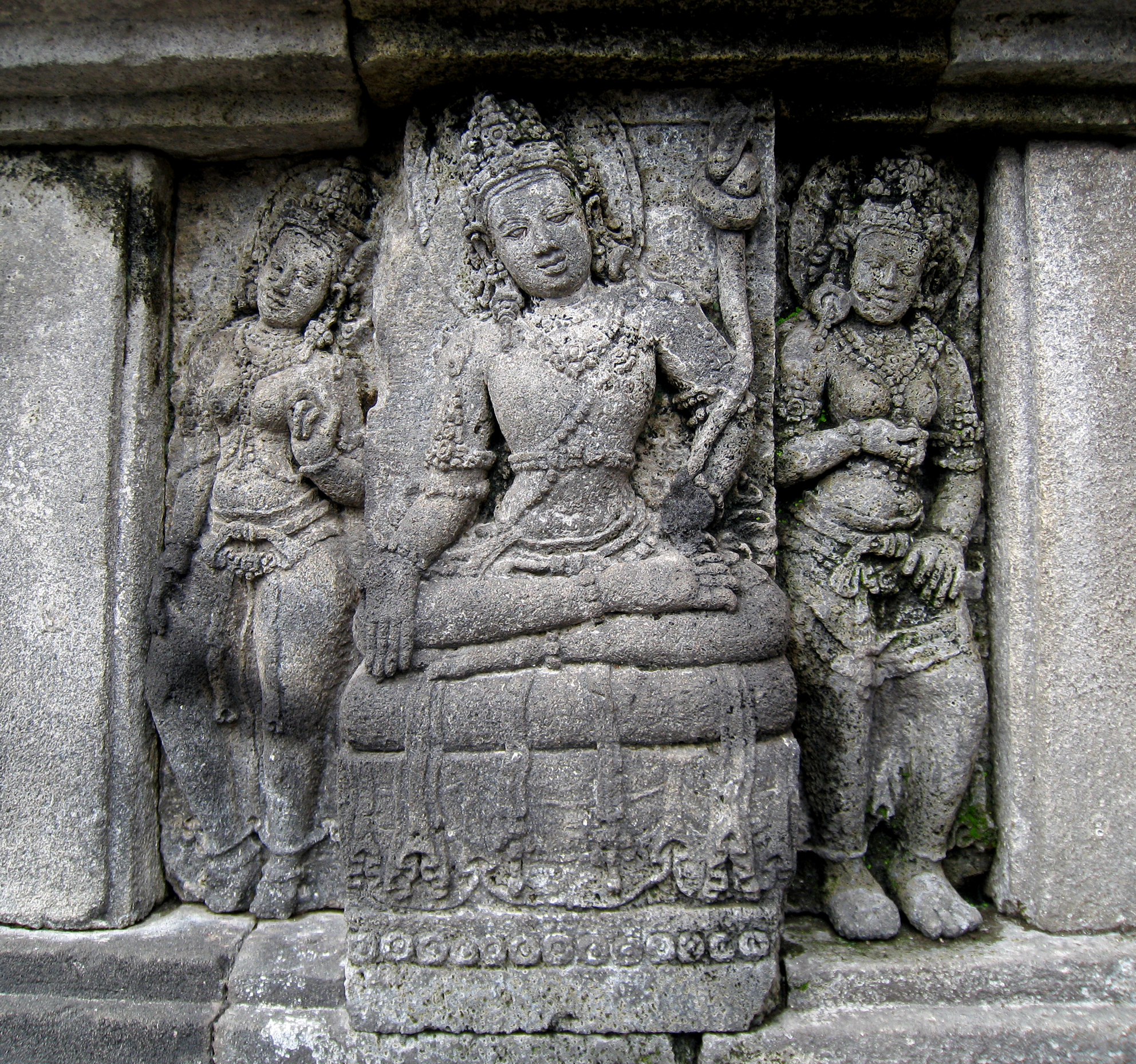 A male Hindu deity flanked on either sides by two female deities. These figures is probably devata and apsaras, the celestial maiden. The relief panel on the wall of Vishnu temple, Prambanan, Java, Indonesia.